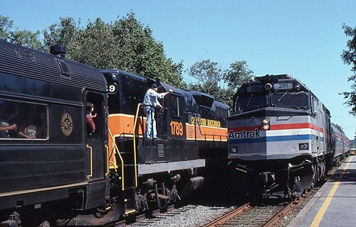 The Cape Codder passes a Cape Cod railroad passenger train (operated by the Bay Colony Railroad) at West Barnstable station in September 1995